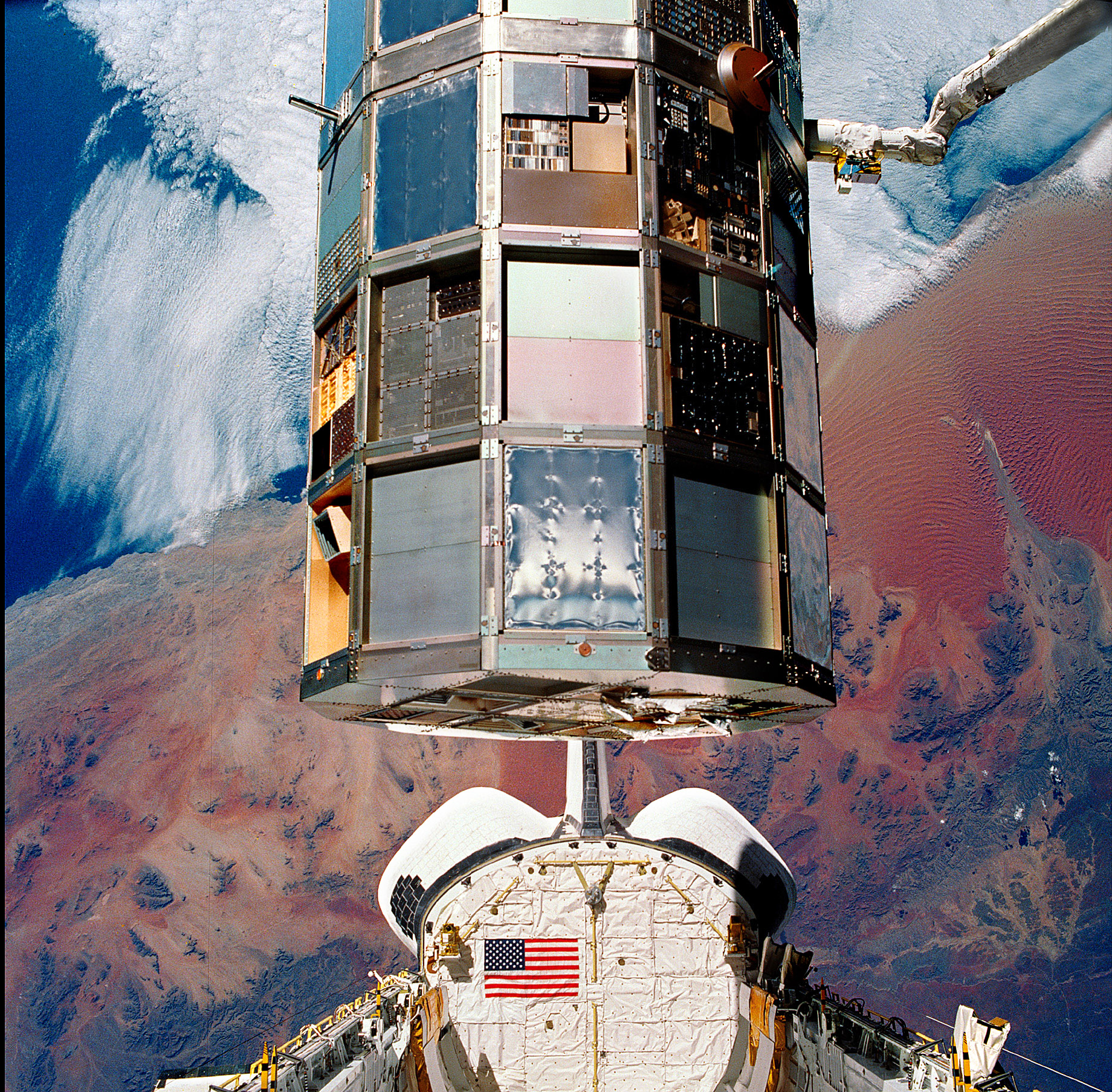 NASA's Long Duration Exposure Facility as seen during a photographic survey after it's retrieval by Columbia on mission STS-32. visible is the bay and town of Lüderitz in the top left corner.